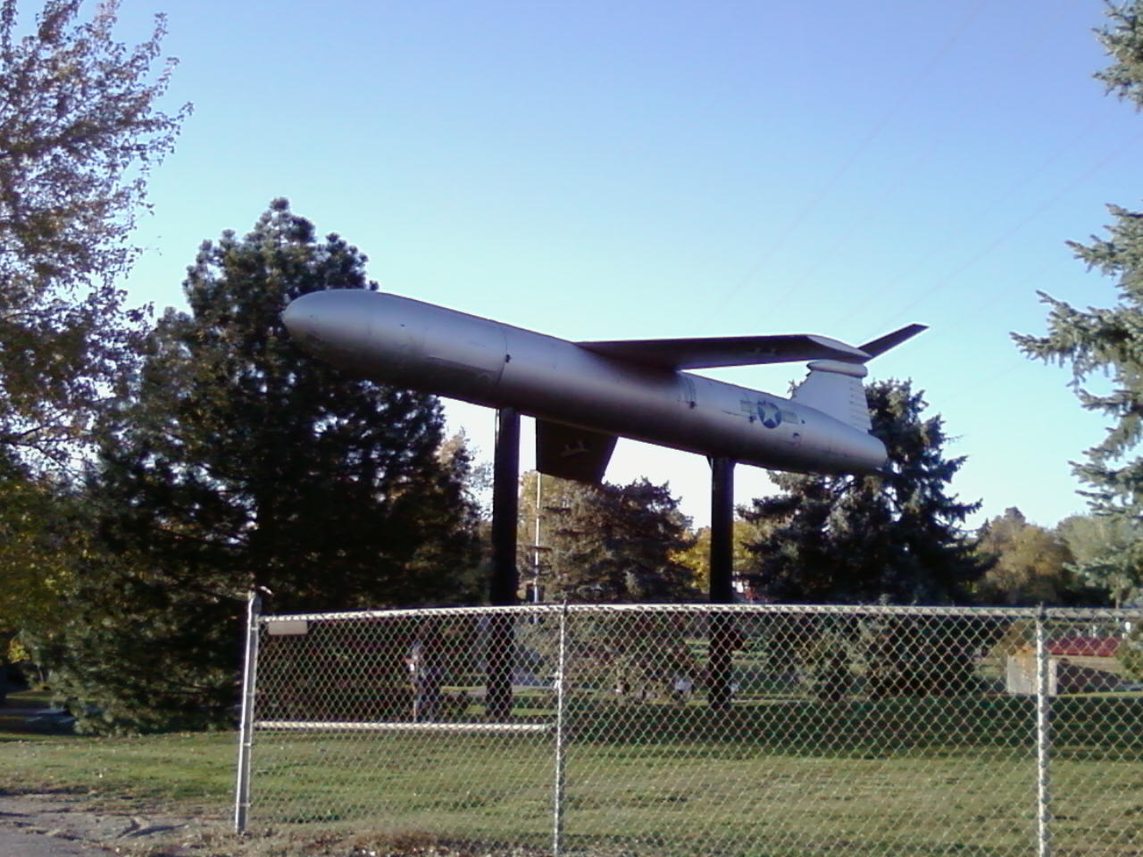 TM-76 Mace missile at the Belleview Park in Englewood, CO